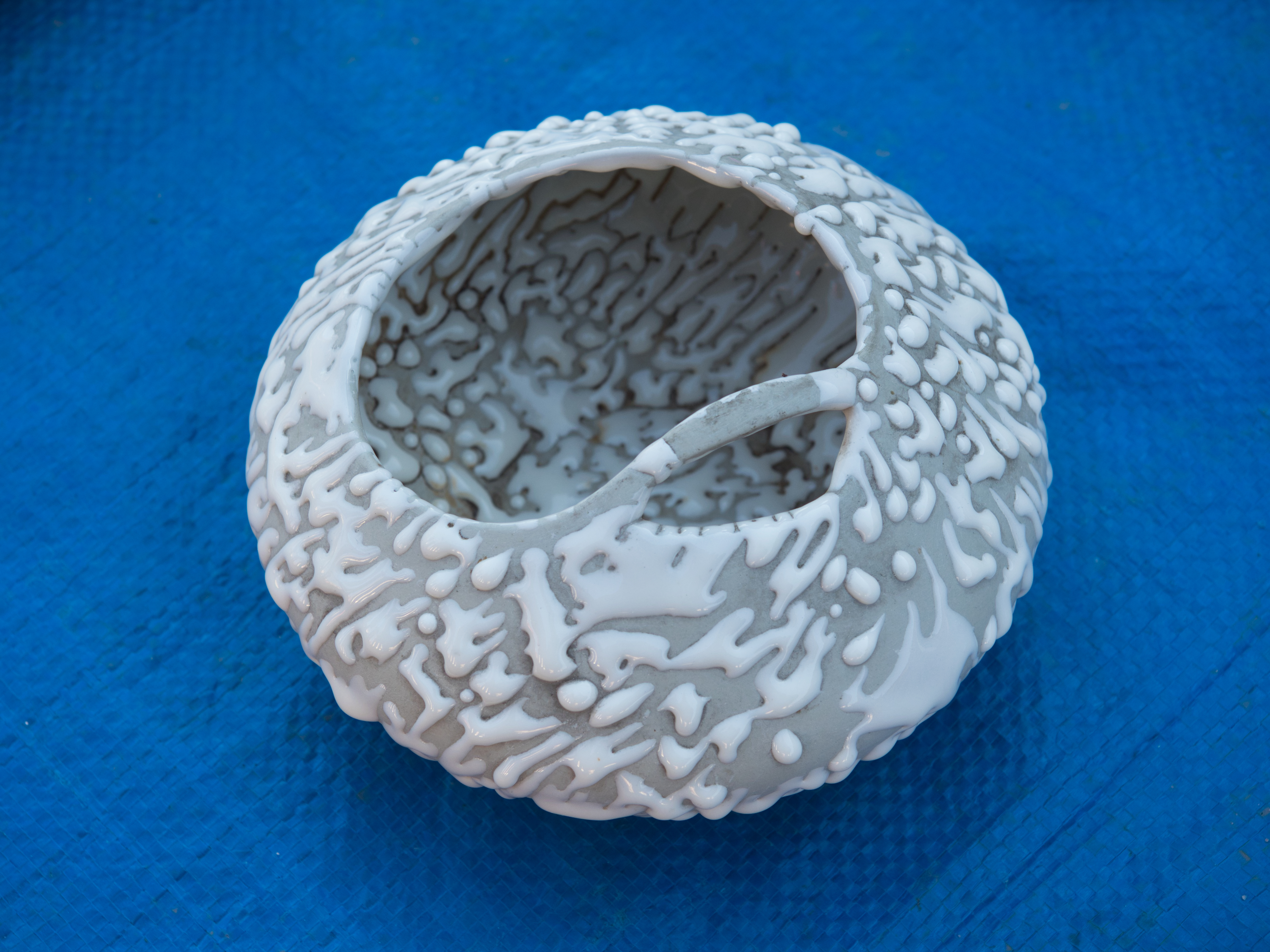 Ceramic vase produced by ZPS Pruszków, designed by Wiesława Gołajewska.